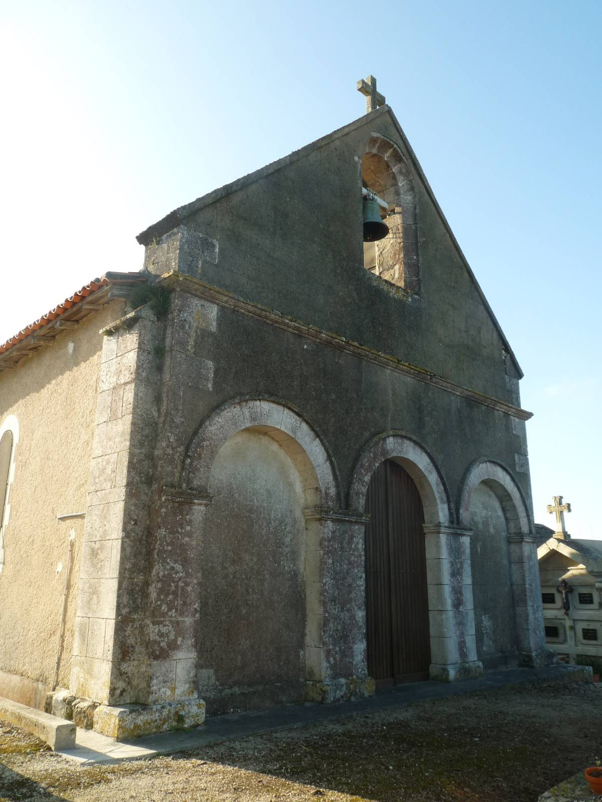 church of Sauvignac, Charente, SW France